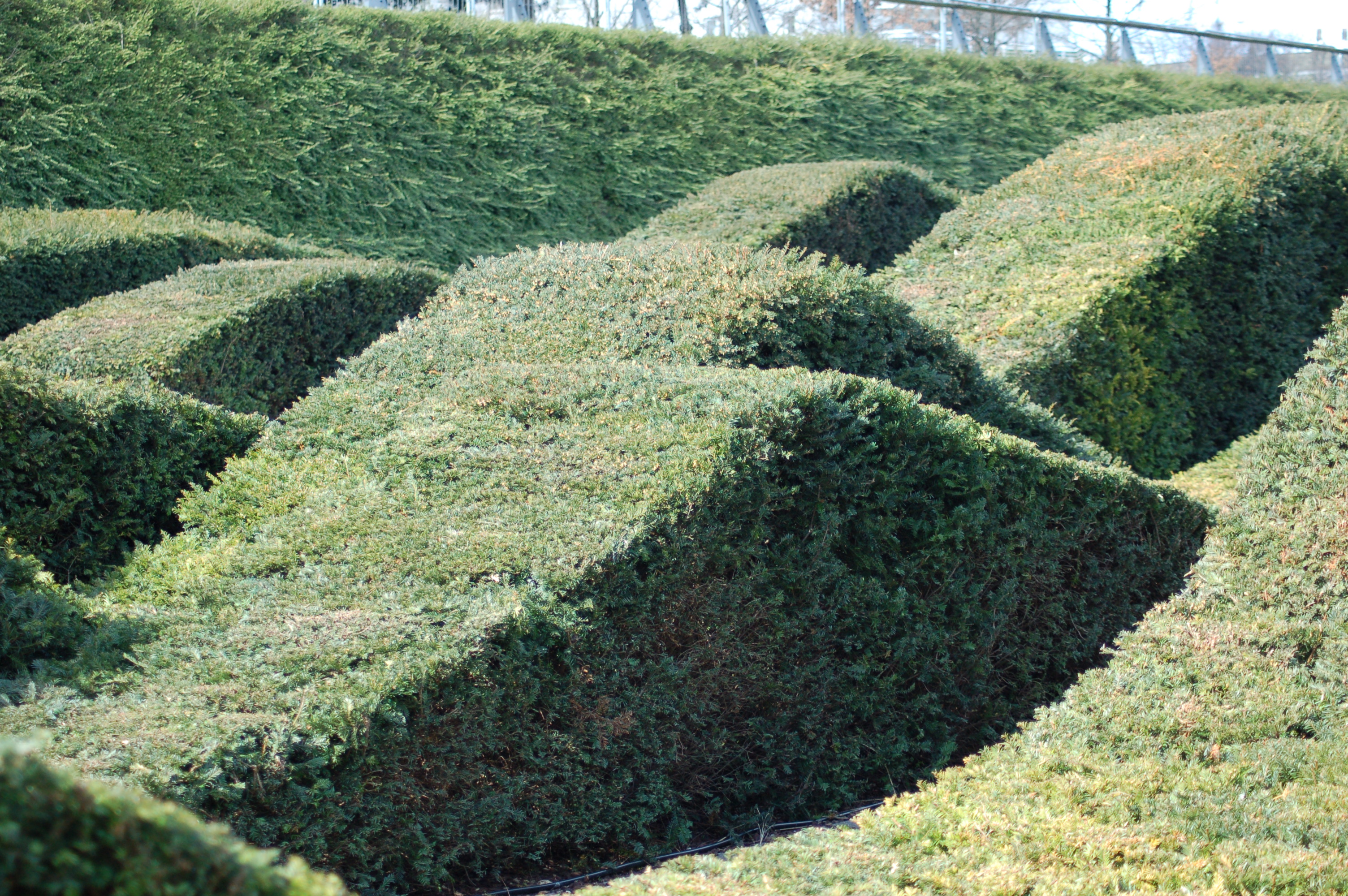 Topiary at Thames Barrier Park - London. "I done it, I admit it - if nothing else, please attribute Kevin Thompson."